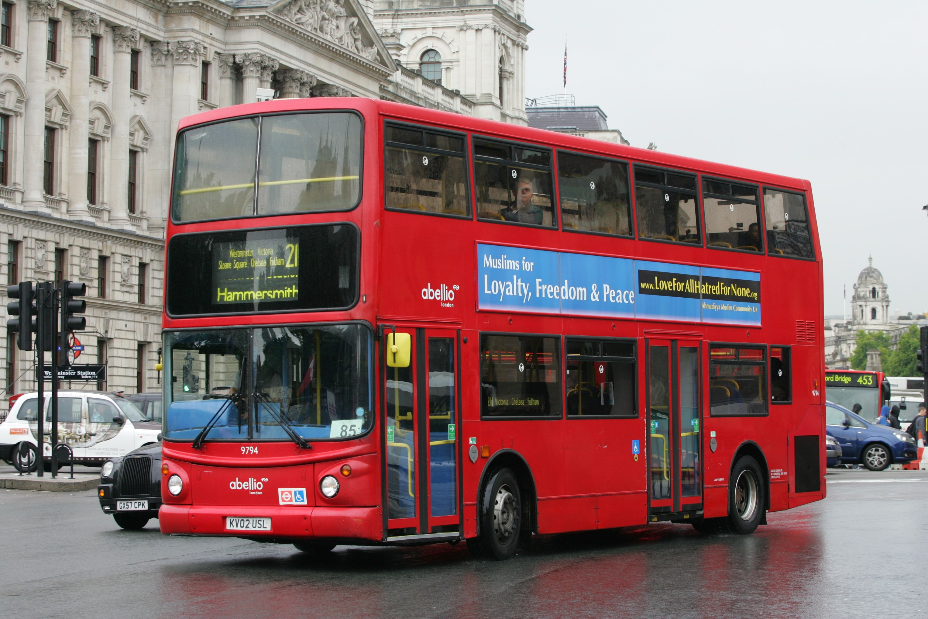 Abellio London bus 9794 (reg. KV02 USL), a 2002 Transbus Trident 2 double-decker with Transbus ALX400 bodywork, operating London Buses route 211.